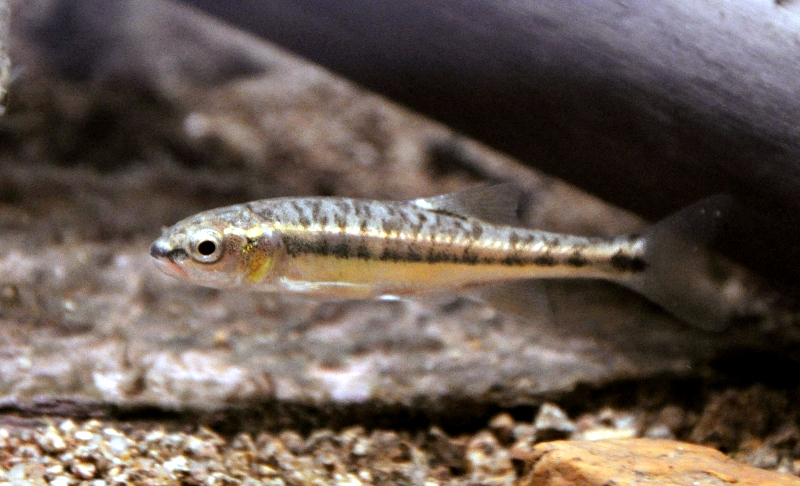 Picture of common minnow (Phoxinus phoxinus)